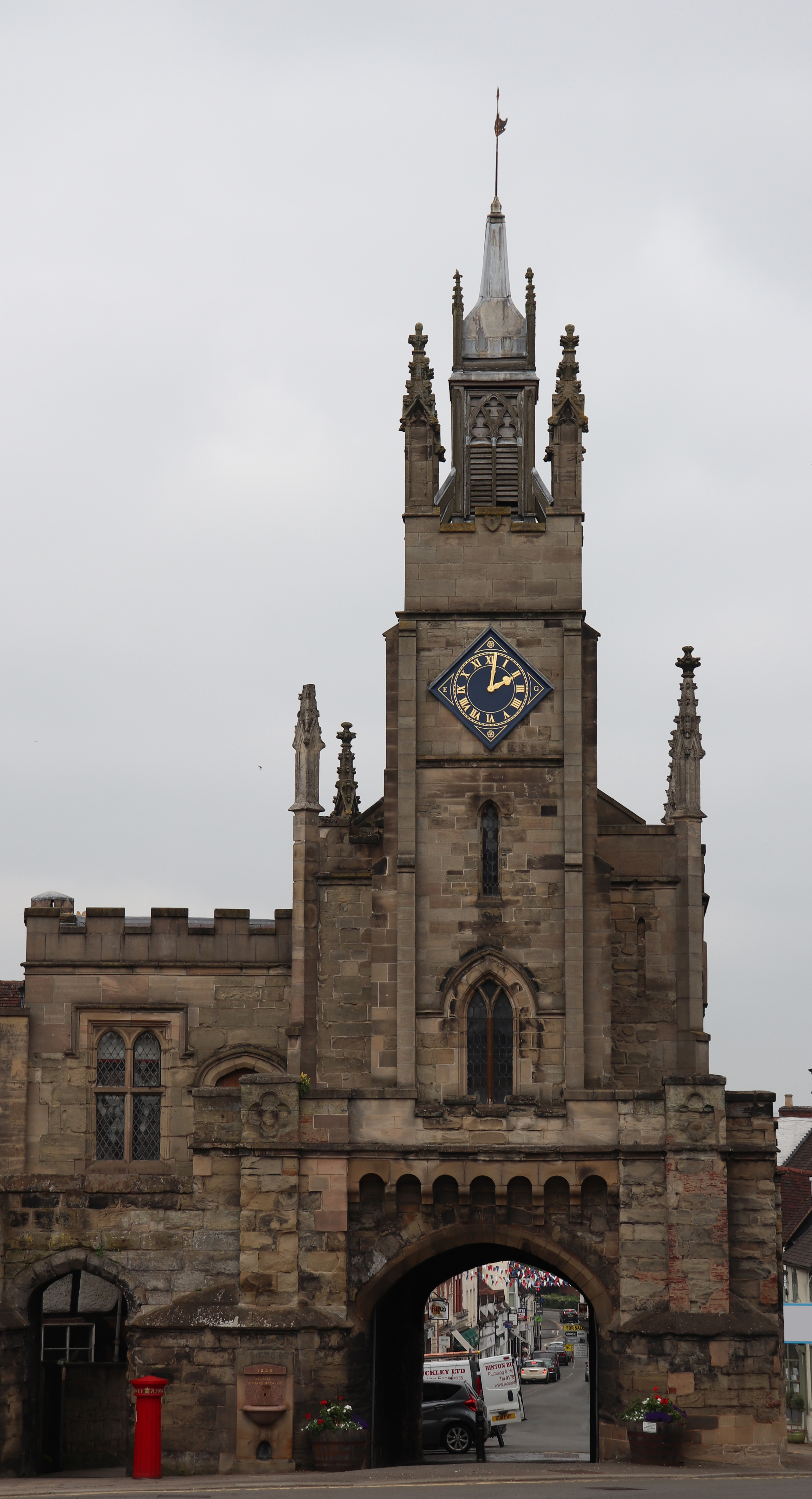 Eastgate, Warwick